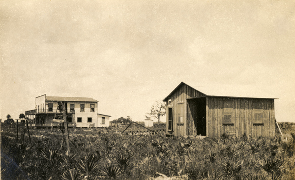 Scene at a farm at Hall City, Christian Colony in Glades County. Note the Hall City Hotel in the distant background at the left.